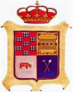 Escudo de Degaña